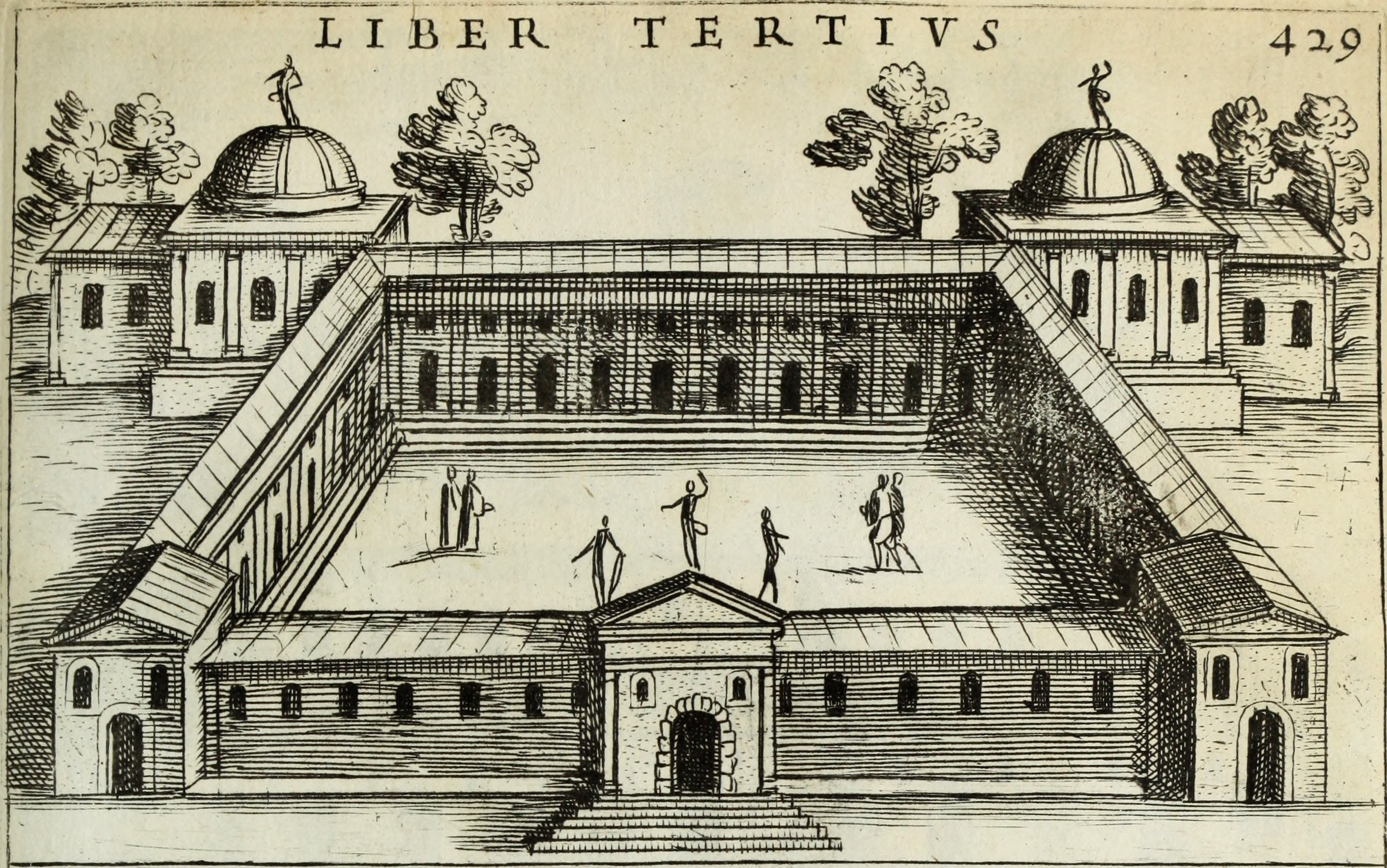 Title: Roma vetus ac recens, utriusque aedificiis ad eruditam cognitionem expositis Year: 1725 (1720s) Authors: Donati, Alessandro, 1584-1640 Honervogt, Jacques, active 1654-1656 Lelli, Giovanni Antonio, ca. 1580-1640 Alamannus, Ant Subjects: Publisher: Romae : Ex bibliotheca fratrum de Rubeis ... Text Appearing Before Image: ' Text Appearing After Image: rmRMAI, NERONIANAE VOSTEA AIEXANDRINAE DICTAE